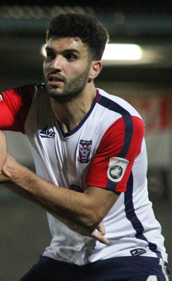 Hamza Bencherif playing for York City against F.C. United of Manchester at Broadhurst Park, Manchester on 17 April 2018